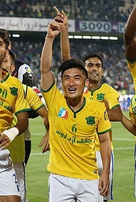 Kim Gwi-hyeon